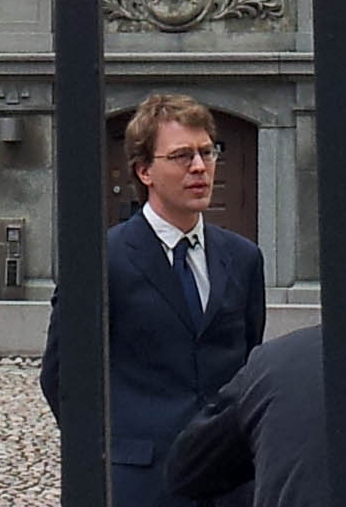 Manga translator Simon Lundström in a TV interview at the Supreme Court of Sweden, after a hearing on the so called "manga case" (2012-05-16). Cropped version of the photo